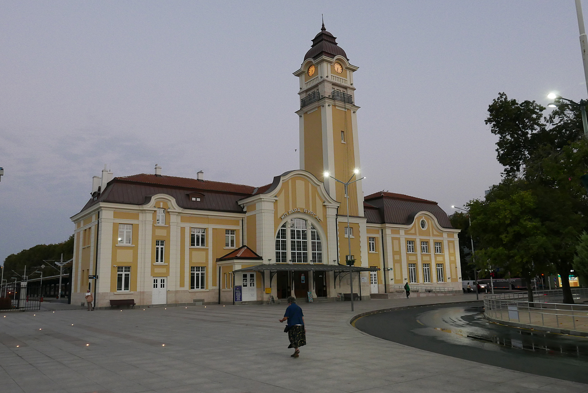 Burgas train station.